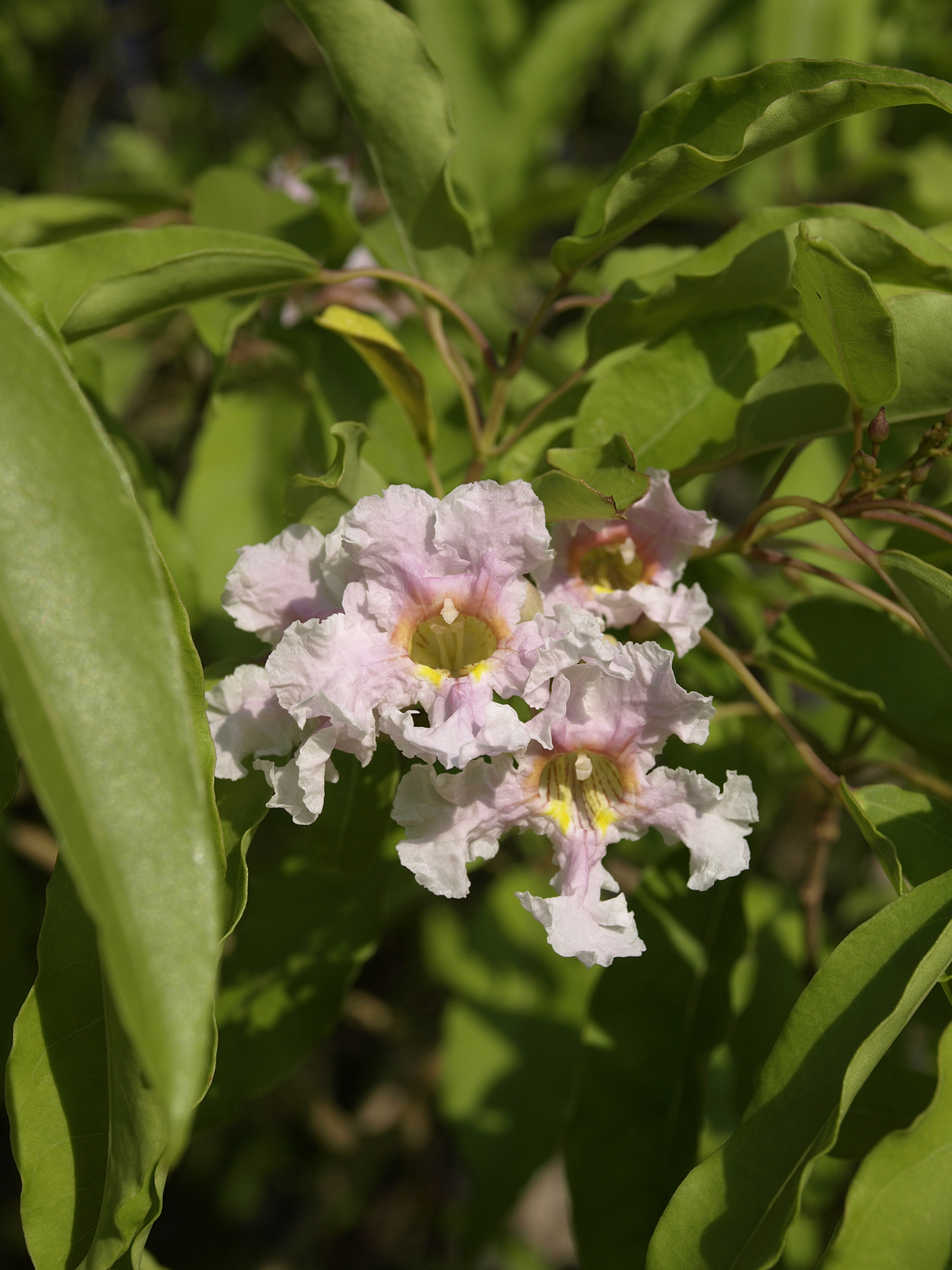 cultivated, South Miami, Florida, USA. Flowers are lightly fragrant. This is a Caribbean species.